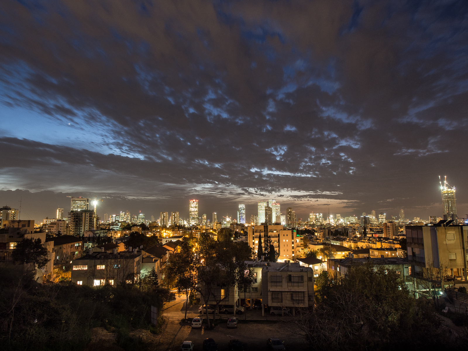 the view from the observatory near my home